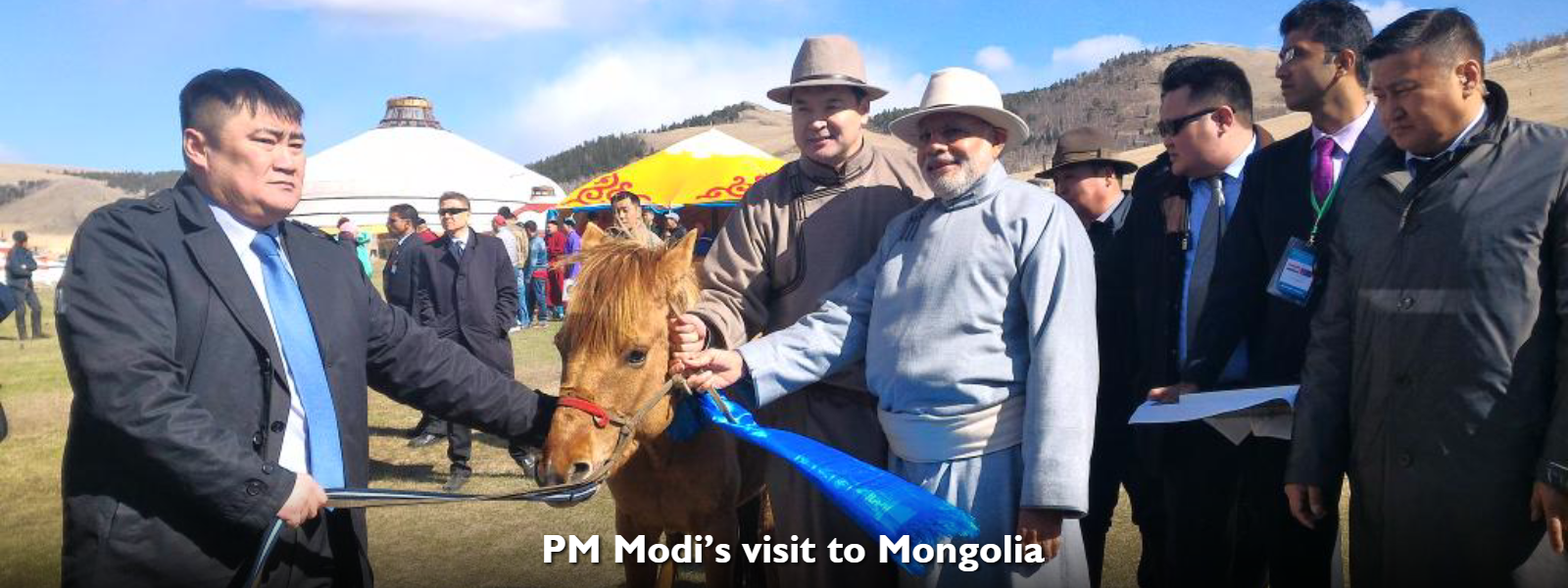 PM Modi’s visit to Mongolia